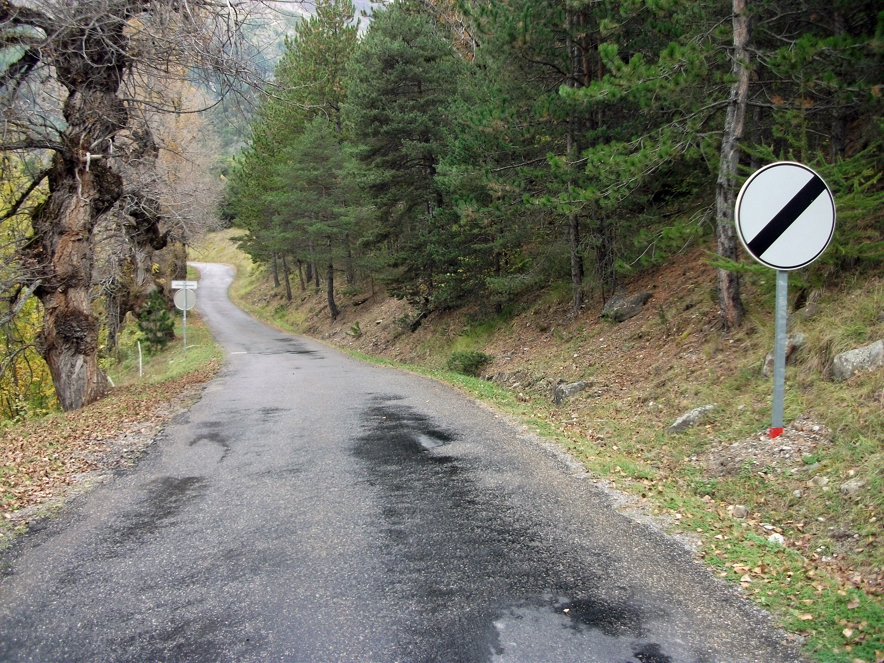 End of all interdictions road sign on the route départementale 9 towards Réallon, in Puy-Saint-Eusèbe (Hautes-Alpes, Provence-Alpes-Côte d'Azur, France). Locality: Le Villard - Date of sign: 2009